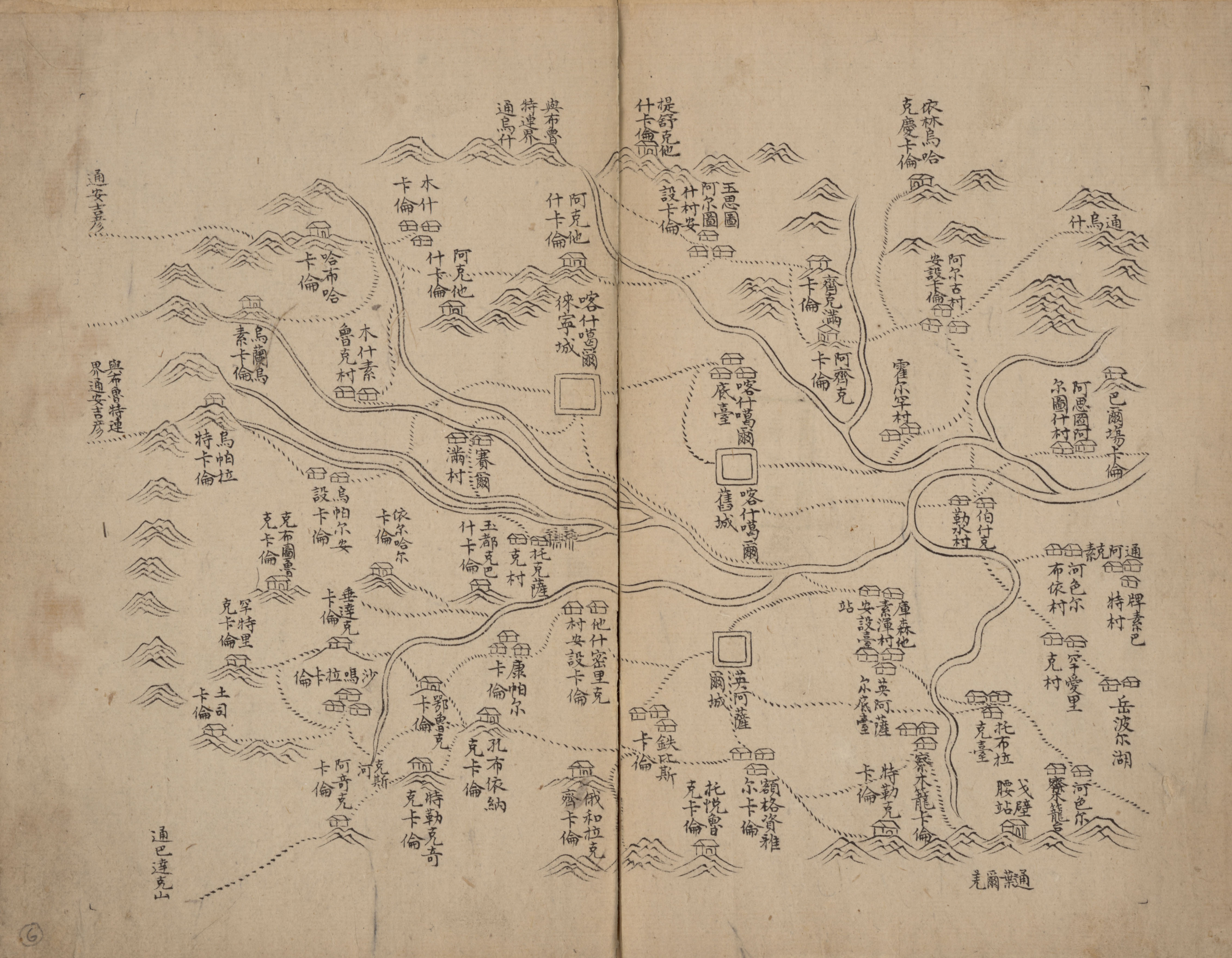 Xinjiang Quan Tu (Atlas of Xinjiang). Chart 16 - Kashgar. Shows the topography, cities, villages and roads with the military posts in the Xinjiang. Also shows the administrative system and local divisions of Xinjiang before the 24th year of Emperor Qianlong (1759). Not drawn to scale. Relief shown pictorially.